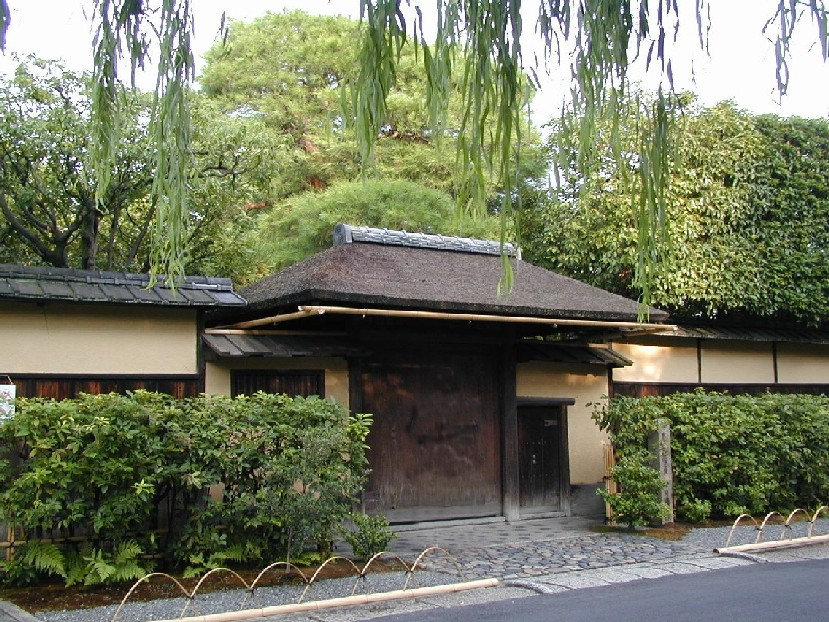 The Kabuto Mon entrance to the Urasenke Konnichi-an, in Teranouchi-Agaru, Ogawa, Kamigyo-Ku, Kyoto City, Japan.